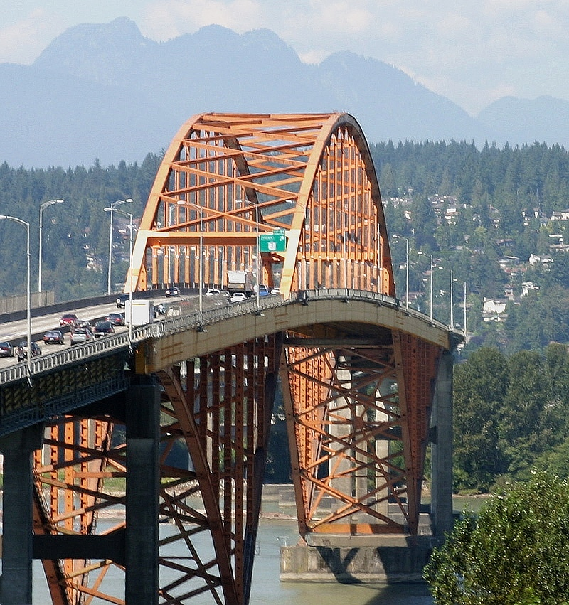 Port Mann Bridge